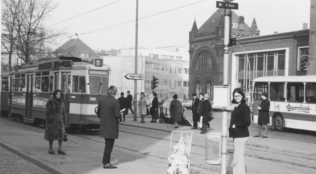 Altona Bahnhof (train station) in 1971. Buses, Street Cars, Trains and S-Bahn (Rapid-transit Railway) trains all met at this spot. Photo taken by Albert Hart.